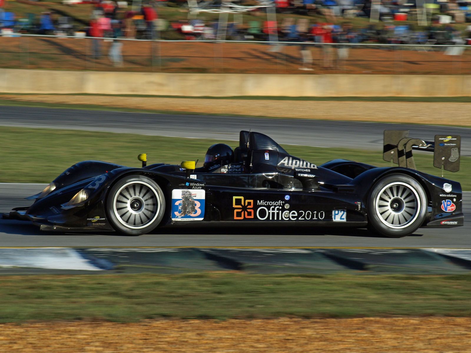 João Barbosa driving the Level 5 Motorsports HPD ARX-01g in the 2011 Petit Le Mans at Road Atlanta.